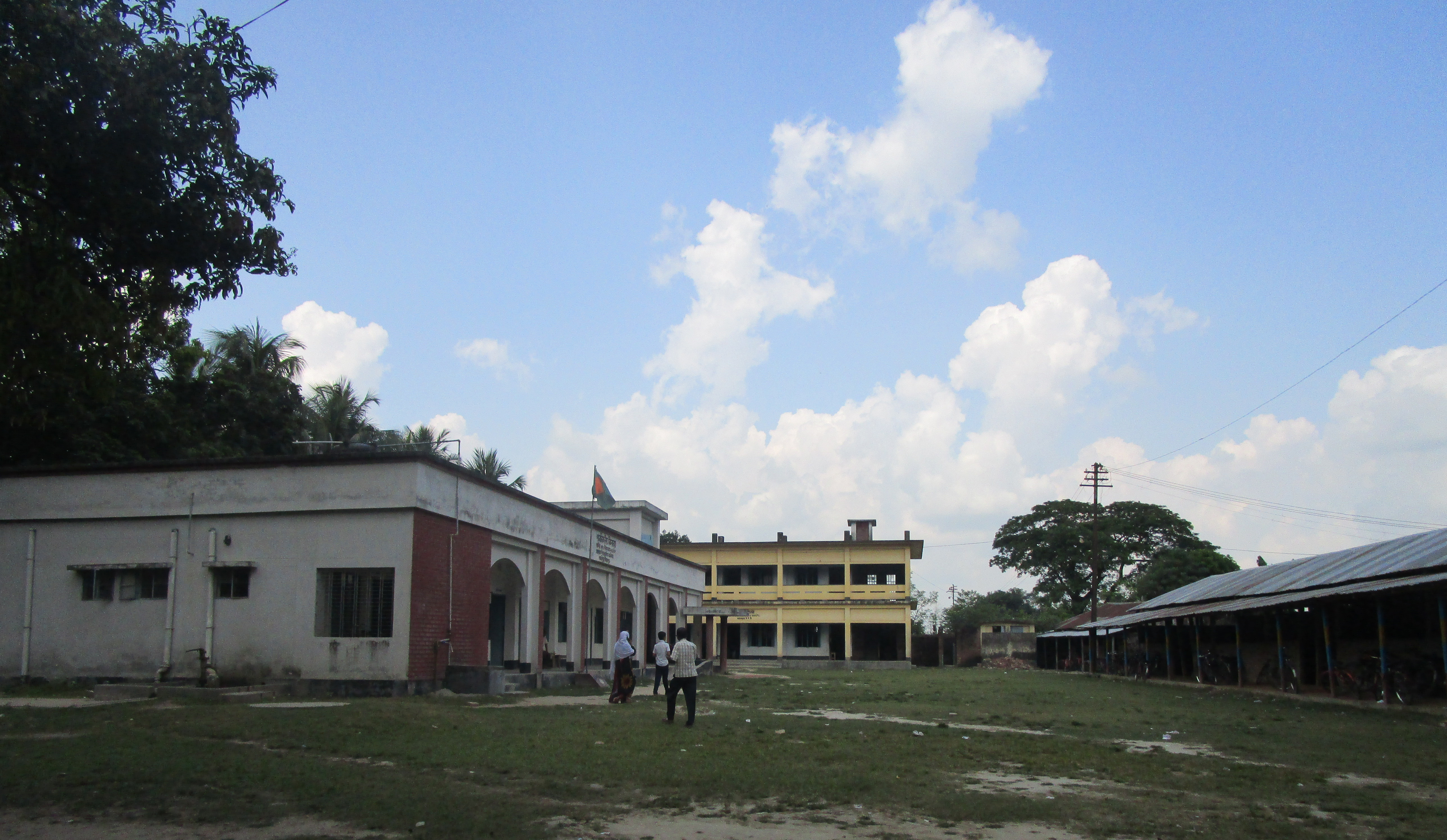 Parbatipur Public High School building.